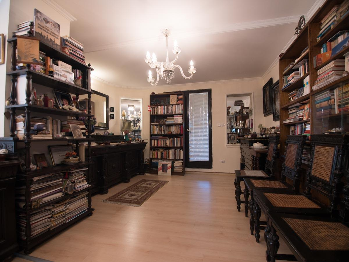 Furniture of Mihailo Polit-Desančić, part of his descendant Dr Ileana Čura's legacy in the Museum of Serbian Literature, part of the Society for Culture, Art and International Cooperation Adligat in Belgrade, Serbia. Српски (ћирилица): Намештај Михаила Полит-Десанчића, део легата проф. др Илеане Чуре, чији је он предак, у Музеју српске књижевности, односно Удружењу за културу, уметност и међународну сарадњу Адлигат у Београду.